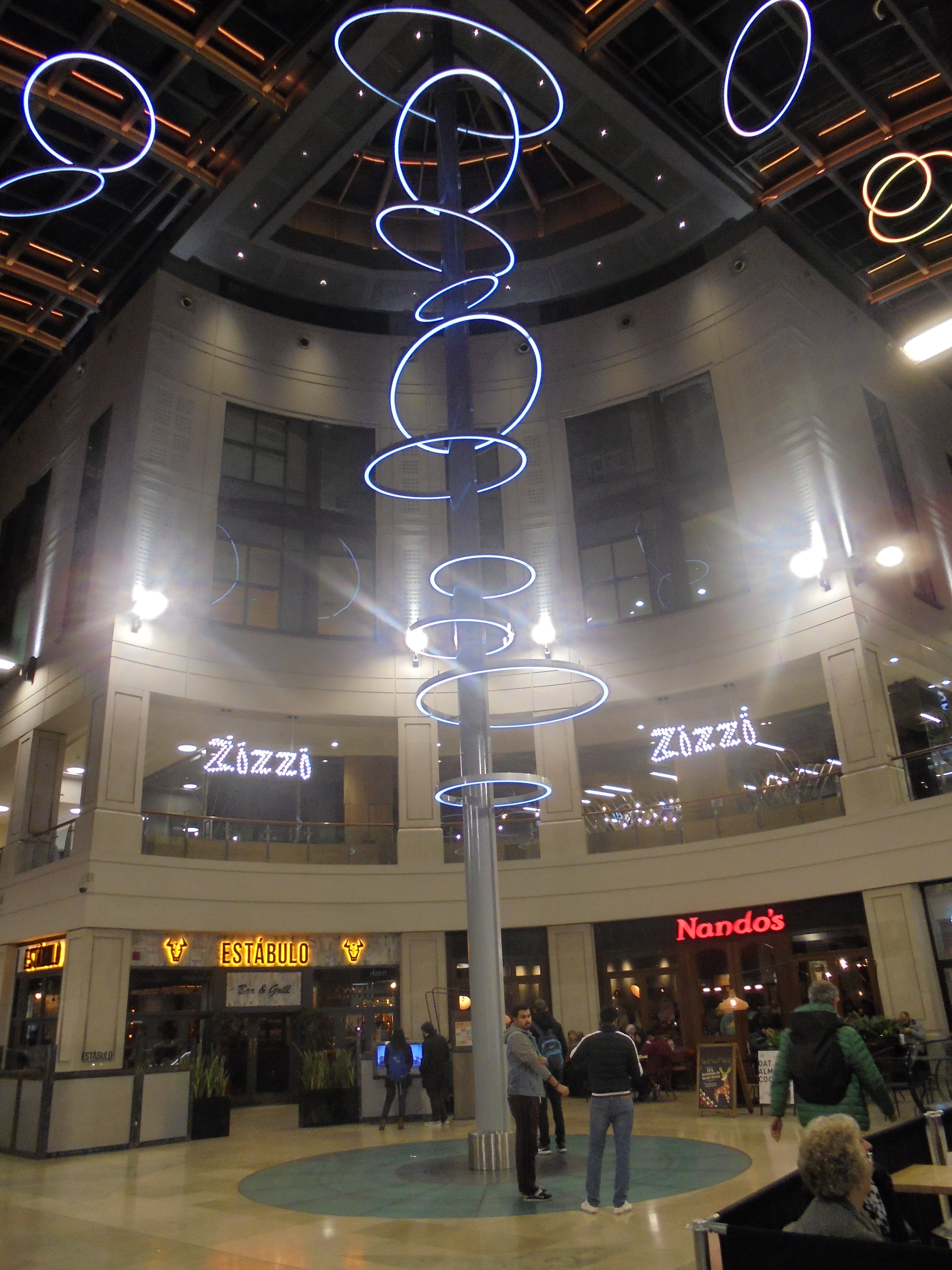 Decorative rings, the Light, Leeds, West Yorkshire. Taken on the evening of Friday the 26th of January 2017.